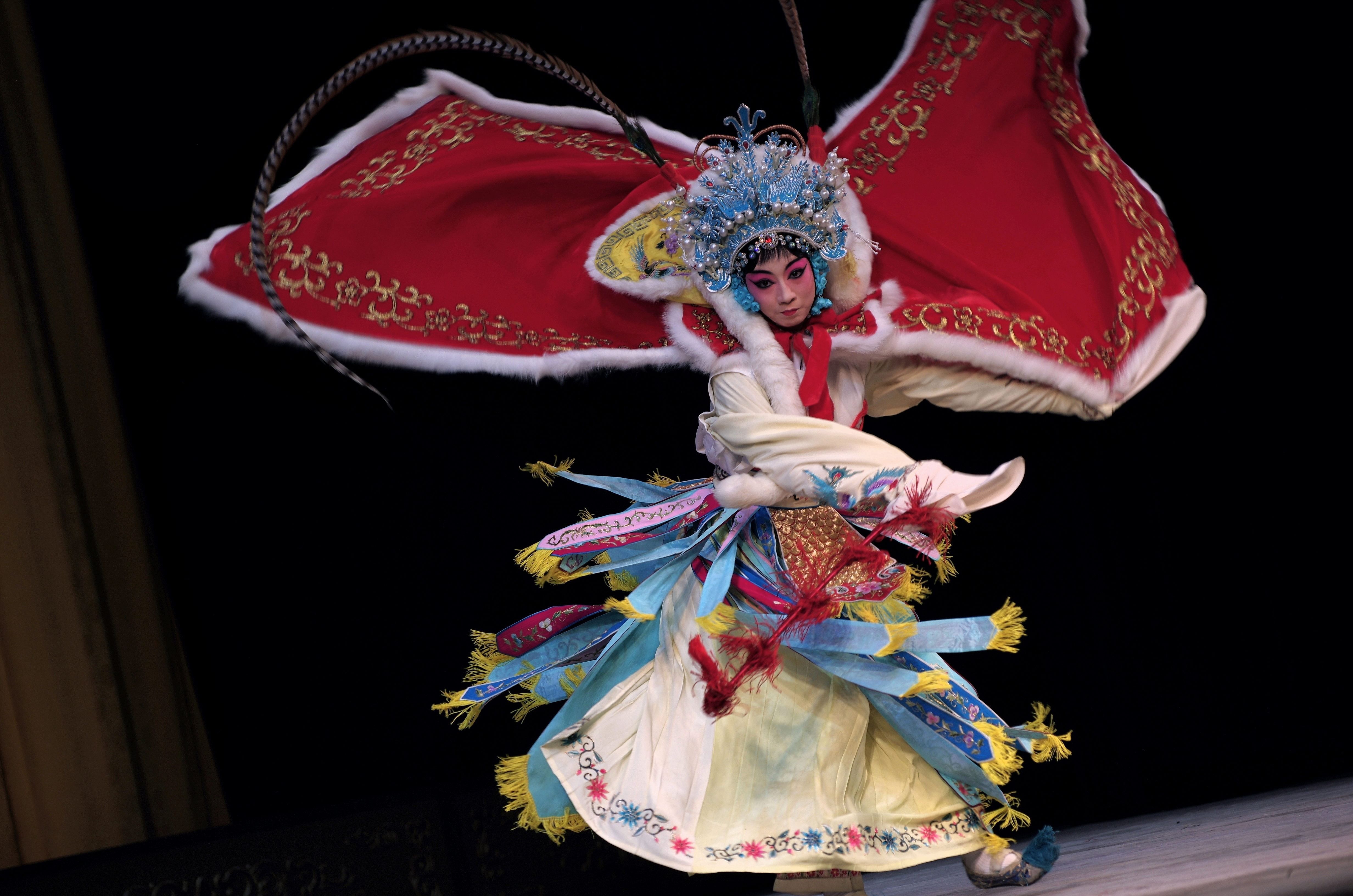 A Peking opera performance in Tianchan Theatre by Shanghai Jingju Theatre Company. Actress Wang Weijia (王维佳) stars as Wang Zhaojun.